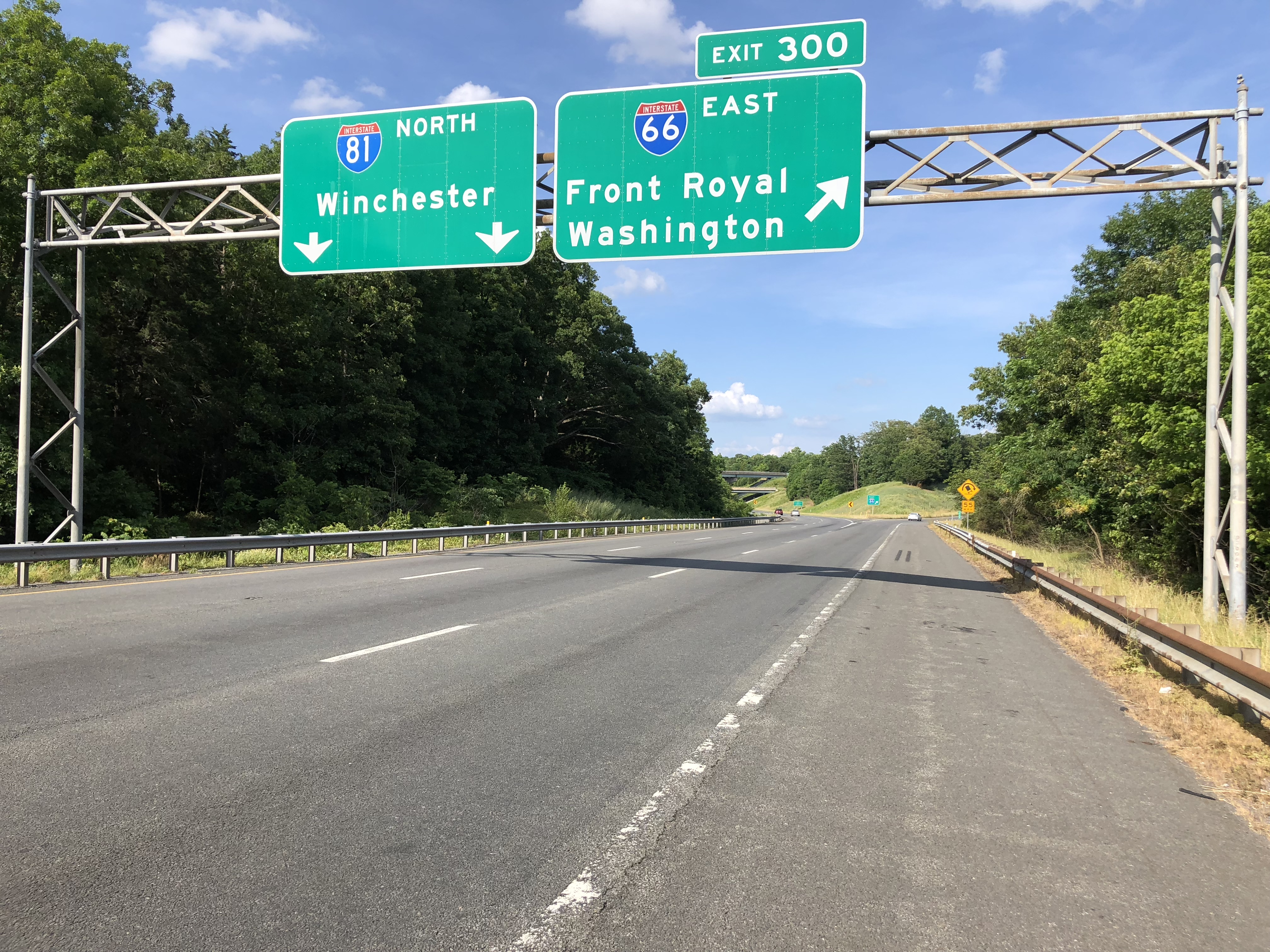 View north along Interstate 81 at Exit 300 (Interstate 66 EAST, Front Royal, Washington) in Warren County, Virginia